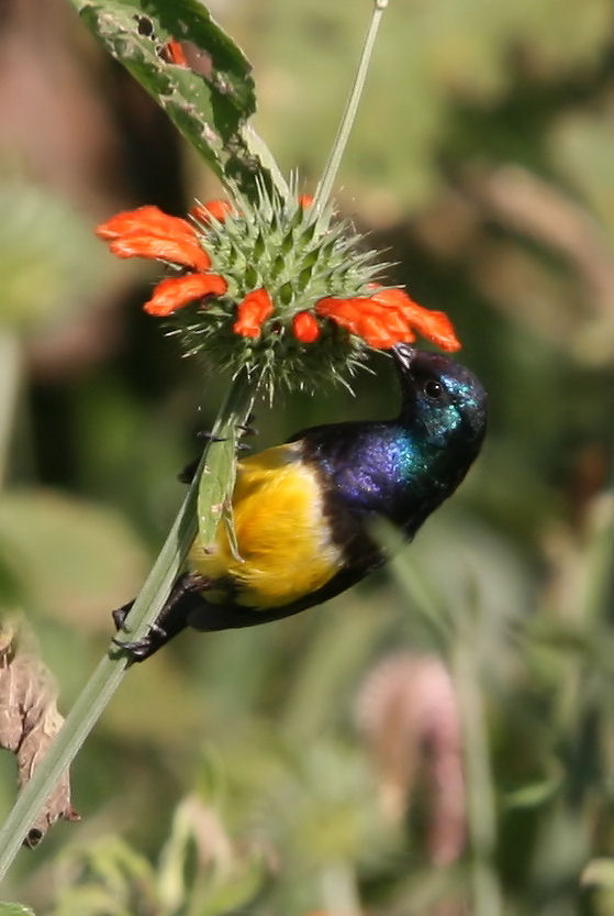 Variable Sunbird (Cinnyris venustus), picture taken at Arusha Nationalpark, Tanzania